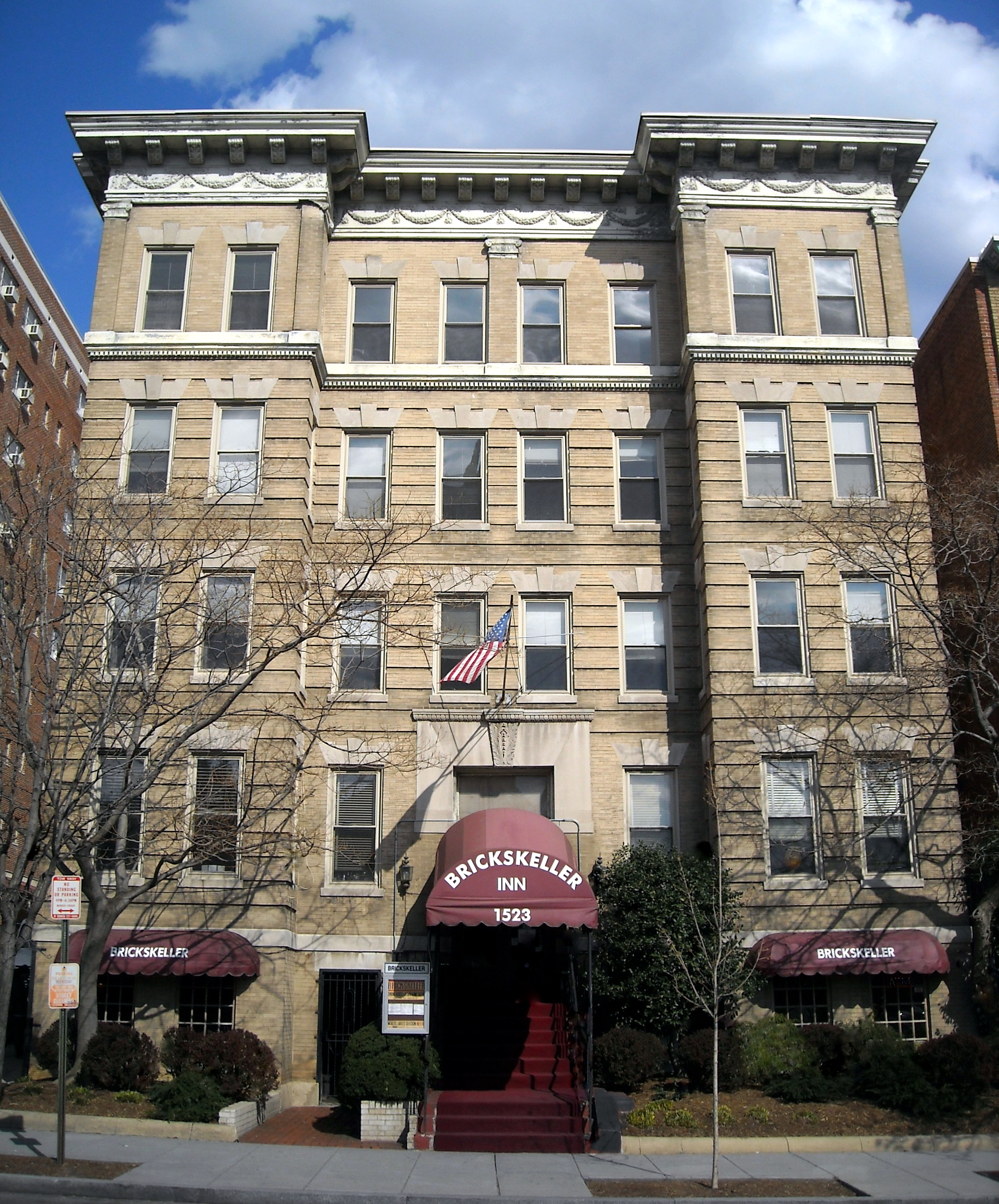 The Brickskeller, a tavern and hotel, located at 1523 22nd Street, NW in the Dupont Circle neighborhood of Washington, D.C. With 1,032 choices of bottled beer on the beer list, The Brickskeller is listed in Guinness World Records as "the bar with the largest selection of commercially available beers." Constructed in 1905, the building originally served as an apartment house named The Sheridan (later named The Donald Apartments, The Donald Hotel, and Marifex Hotel). The Brickskeller is a contributing property to the Dupont Circle Historic District and valued at $7,418,800.